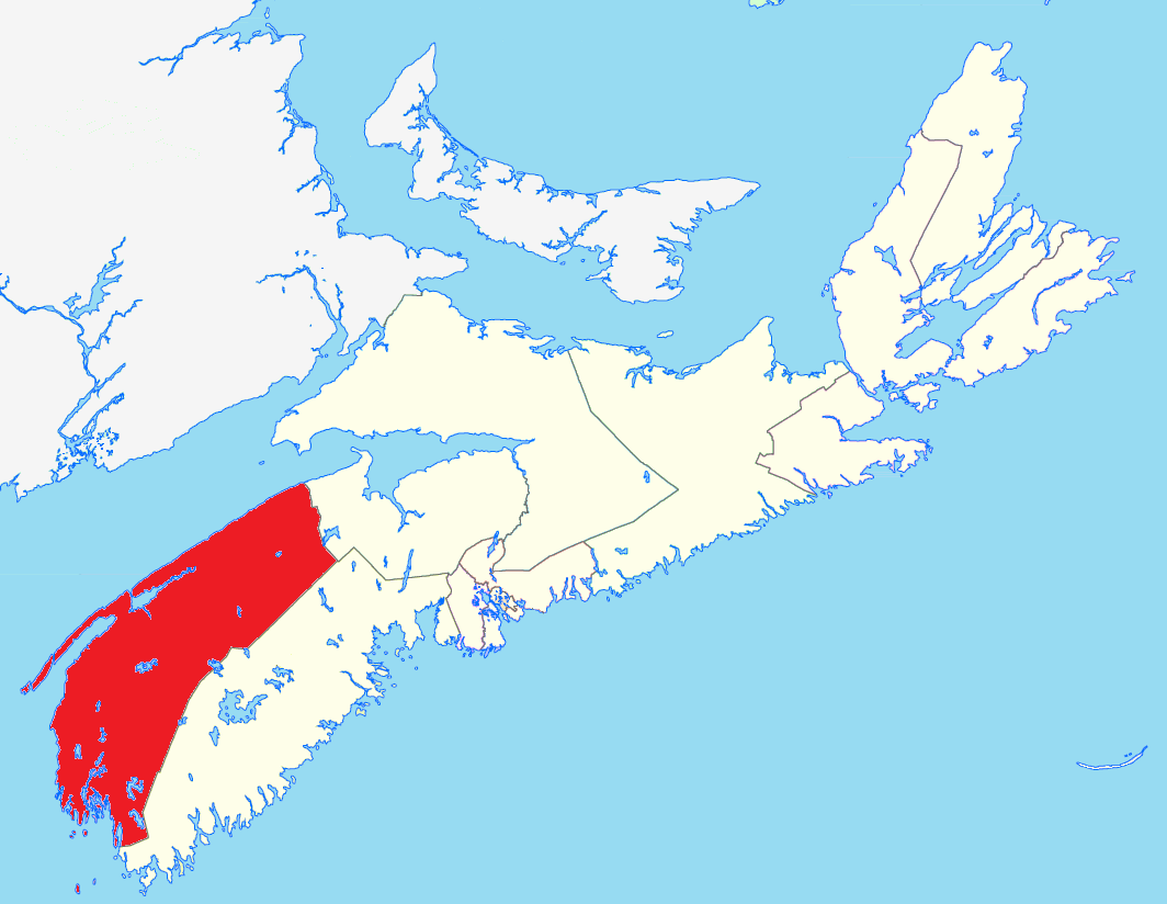 Map of West Nova